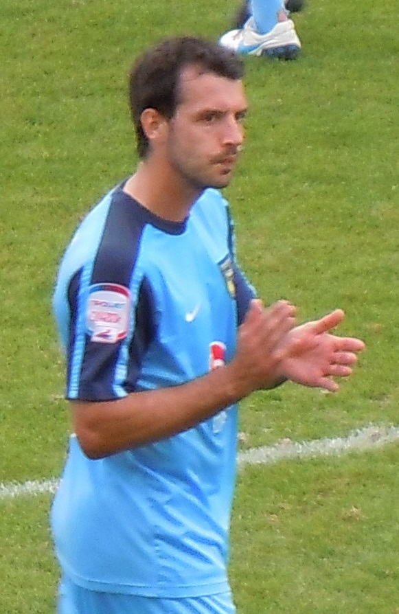 Anthony Tonkin. Image cropped from original at flickr.